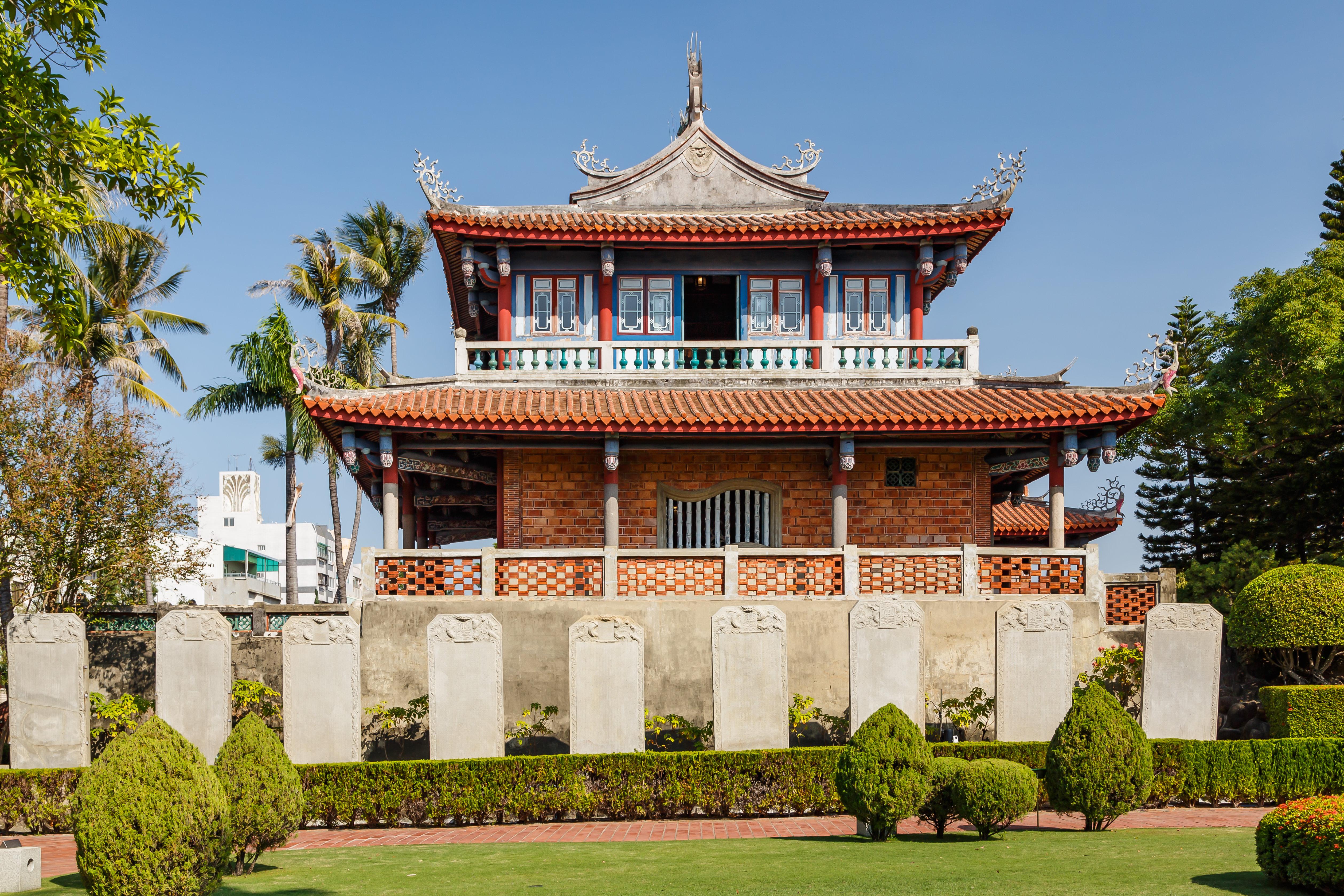 Tainan, Taiwan: The Chihkan Tower of the former Dutch Fort Provintia in Tainan, the old capital of Taiwan. It was built in 1653. The nine steles in front of the building commemorate the crushing of the Lin-Shuangwen uprise in 1788. They are mounted on the back of sculptures of turtles, the symbol of longevity.